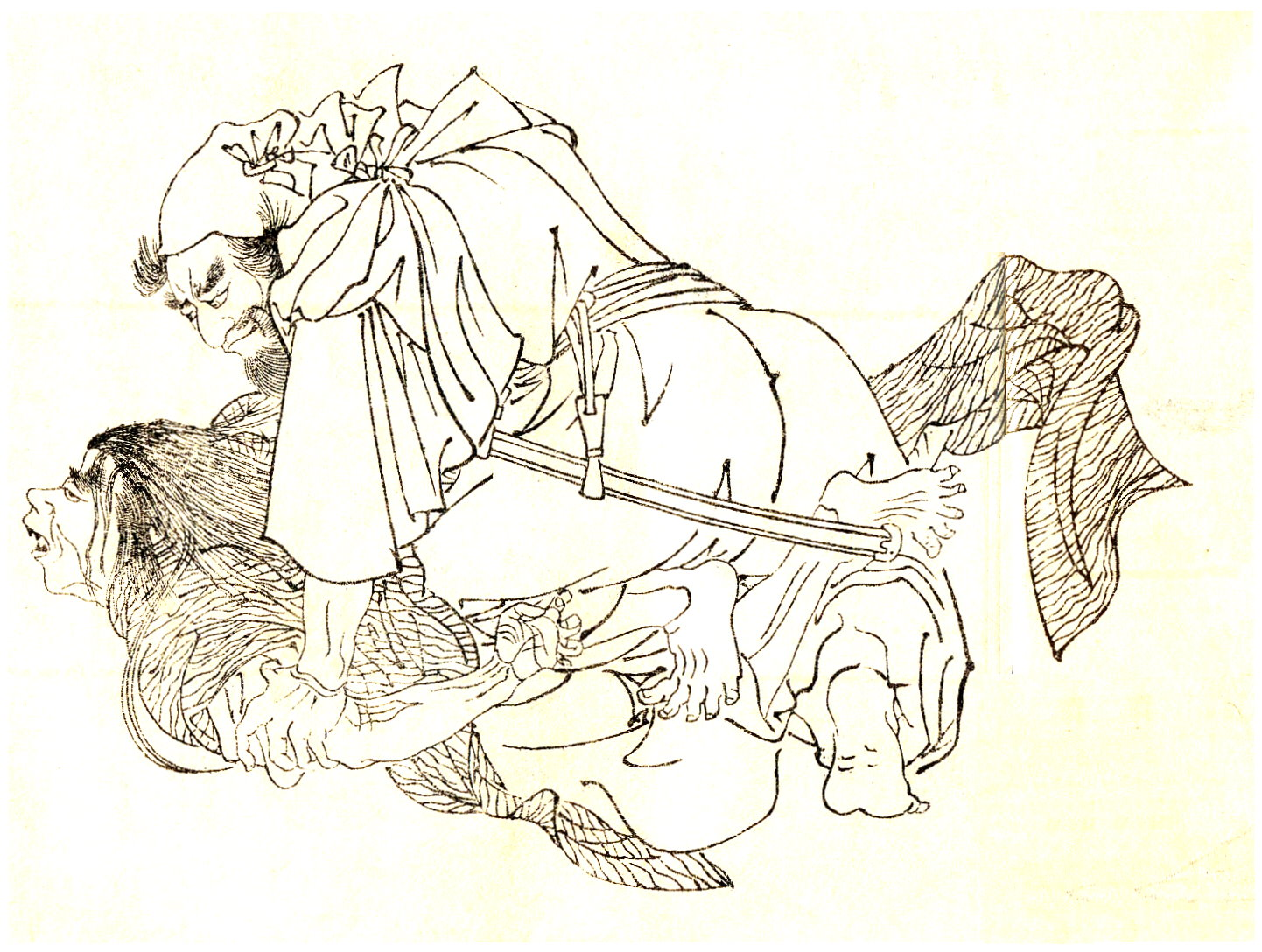 Fujiwara no Takafusa(藤原高房) was a Japanese government official and court noble in Heian Period.